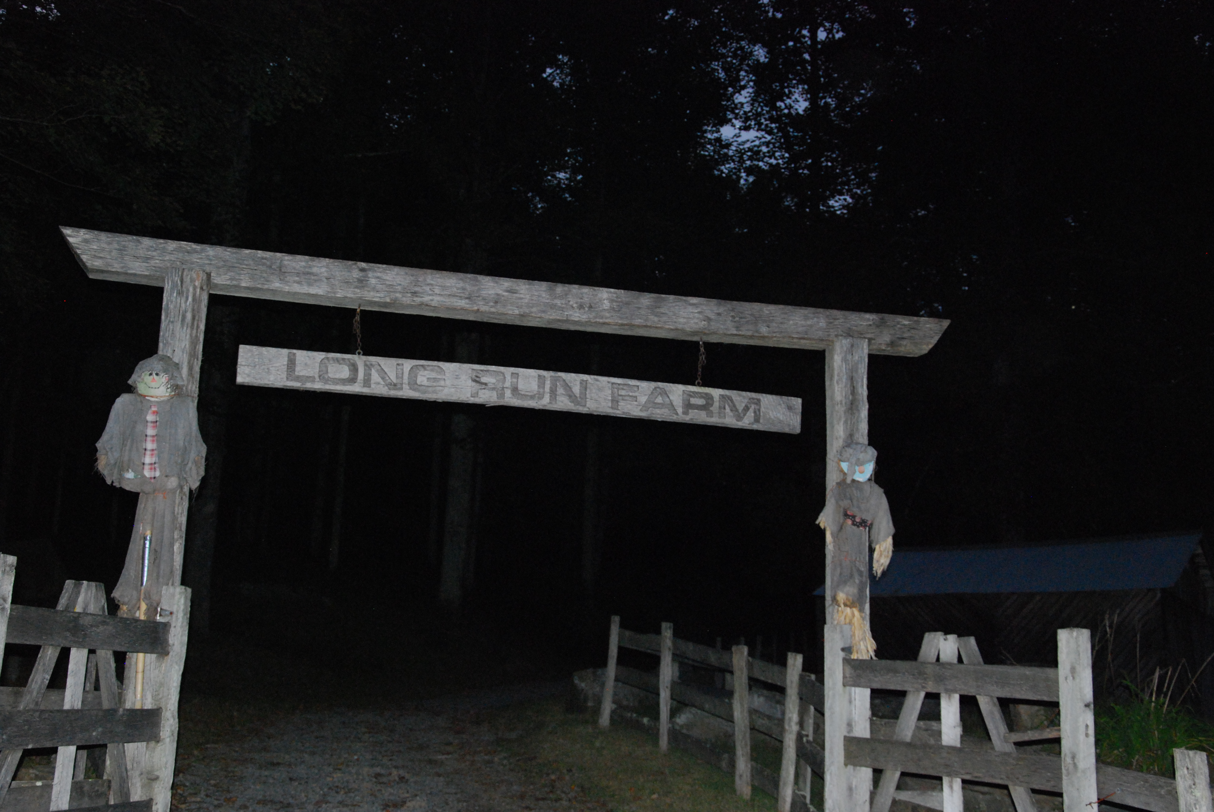 Entrance to Long Run Farm in Webster County, West Virginia.